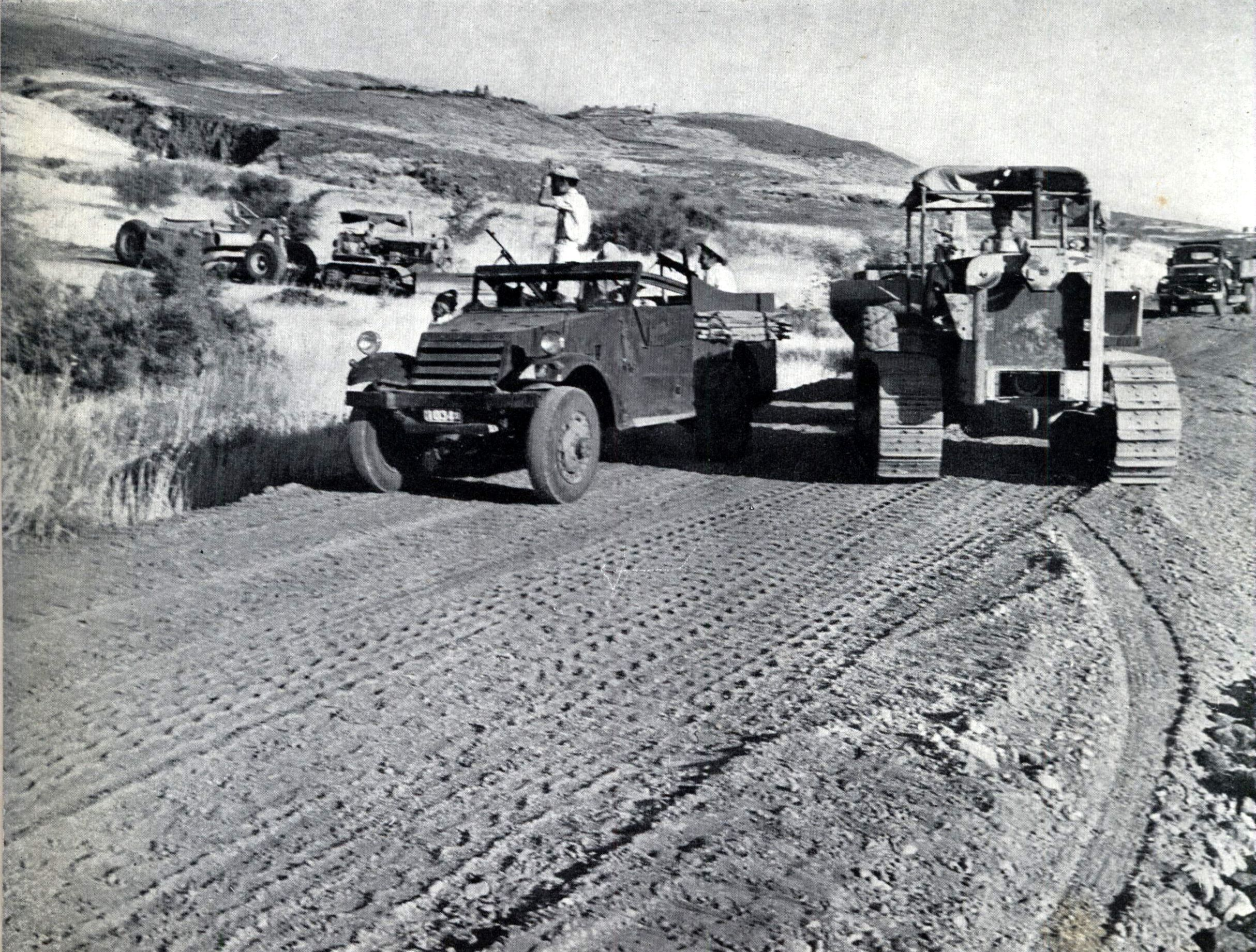 Construction of a road along the Syrian border in eastern Hula valley, Israel (today road 918). 1957-58 כביש גונן-דרדרה (כיום כביש 918). עובר בקרבת הגבול המזרחי ובחלקו בשטח המיובש של אגם החולה. 1957-8